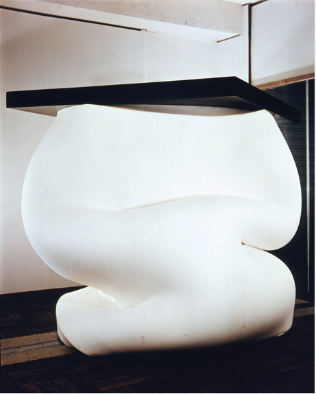 Nobuo Sekine "Phase—Sponge", 1968Steel plate, sponge, 130 x 120 x 120 cm Installation view at Museum of Contemporary Art, NagaokaCourtesy the artist, photo by Eizaburō Hara